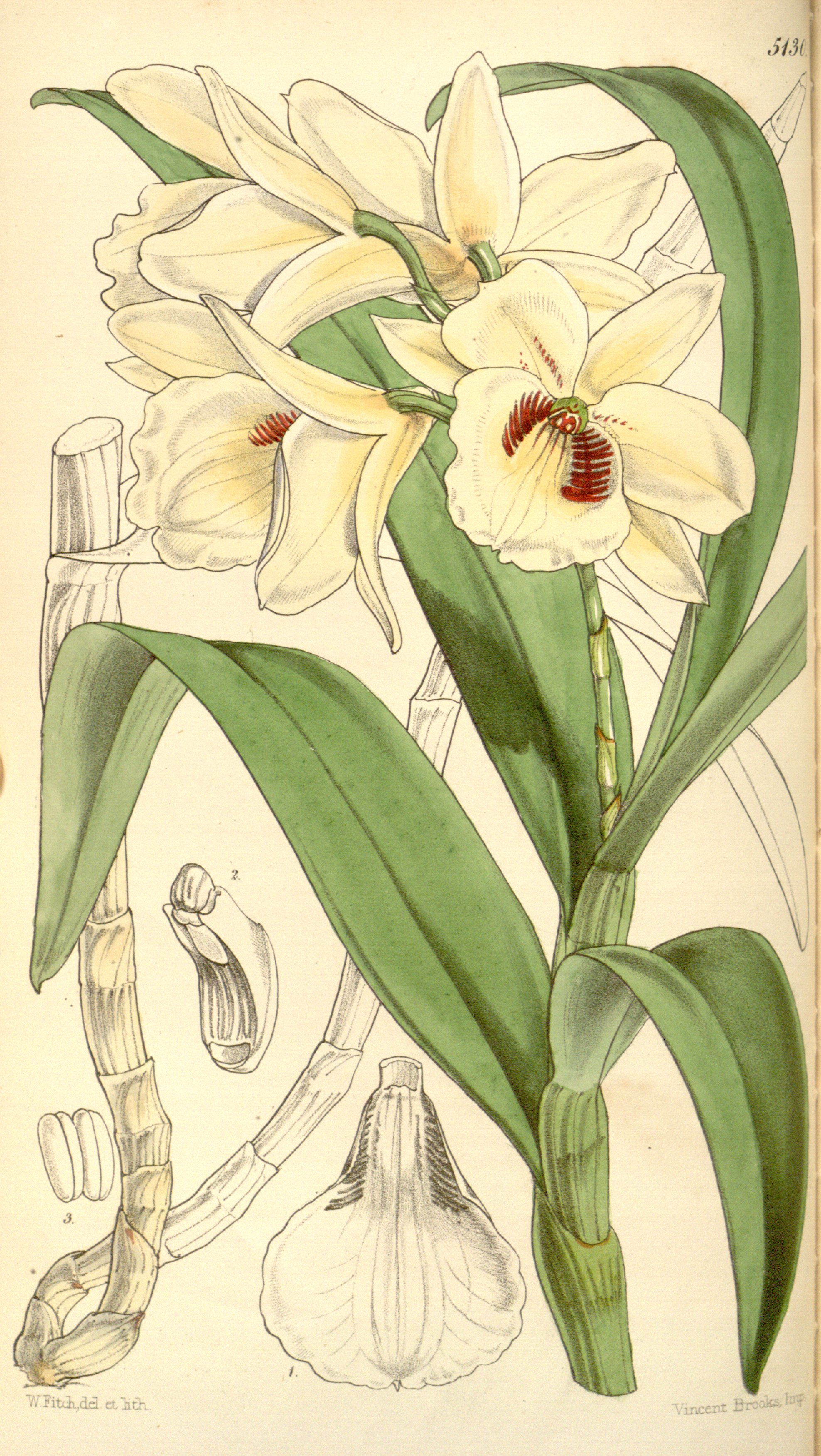 Illustration of Dendrobium albosanguineum (Orig. Dendrobium albo-sanguineum))